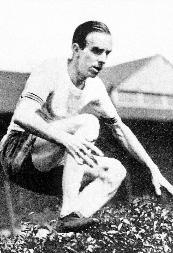 Olympic Games, Antwerp, Belgium, 3000 Metres Steeplechase, Great Britain's Percy Hodge who won the gold medal